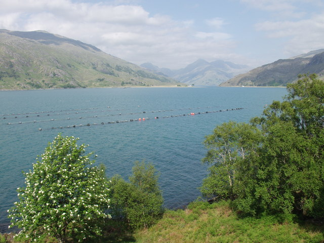 Loch Nevis - Fish Farm near Tarbet. Walking along the cliffs gives a good view of one of the many fish farms in this loch.